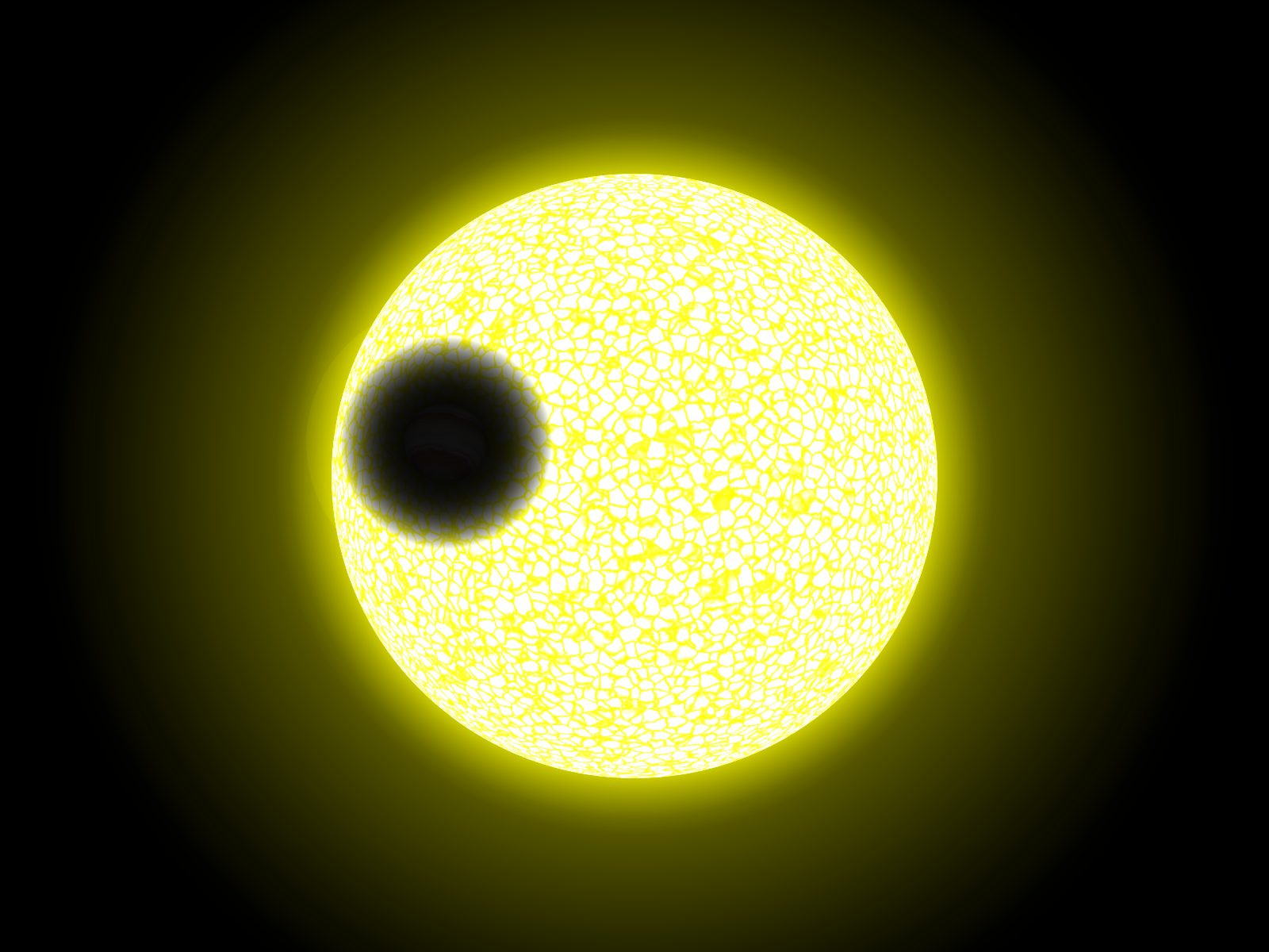 Planet that has thick atmosphere transits its central star.